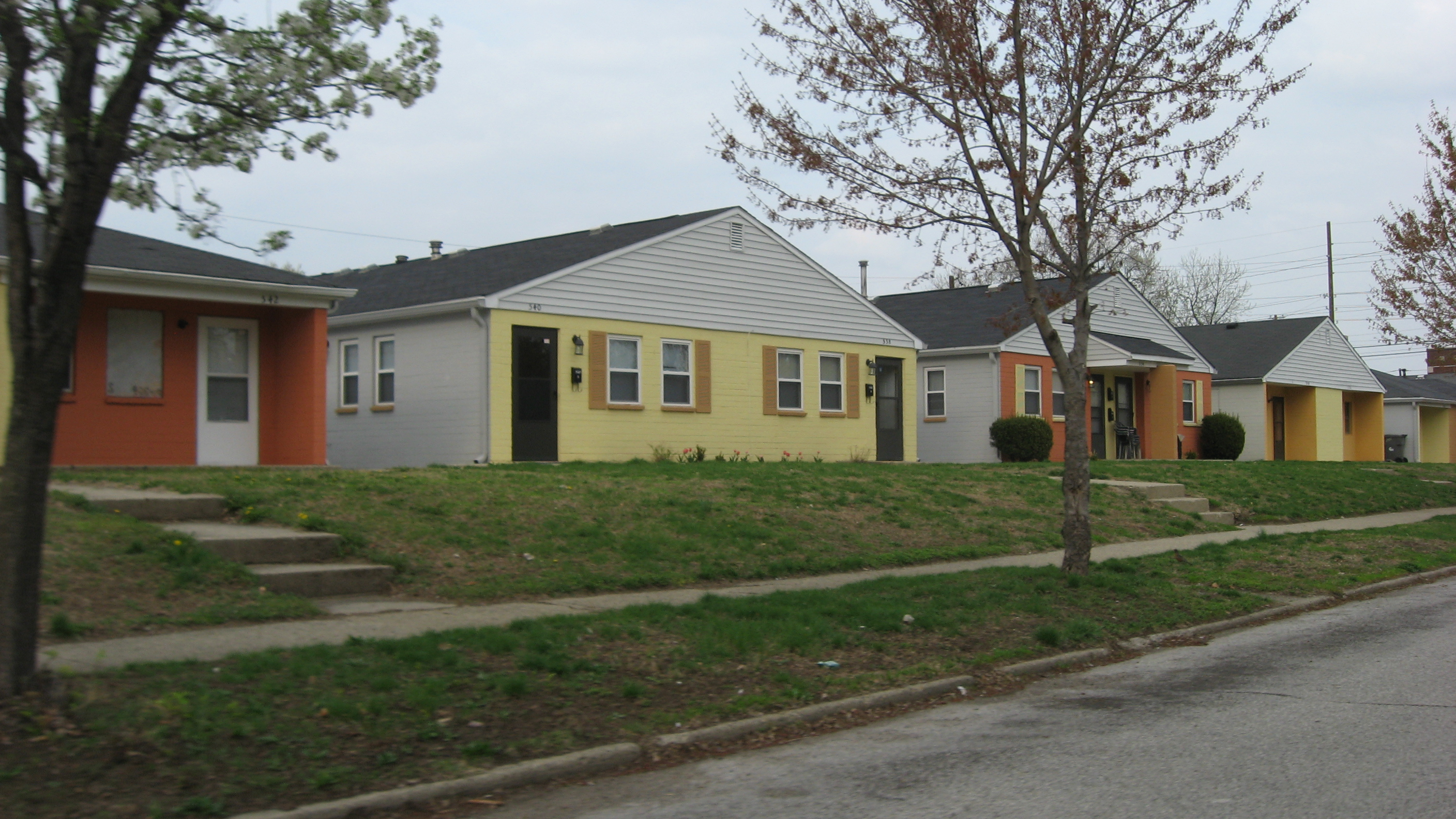 Houses in the 500 block of W. Drake Street in Indianapolis, Indiana, United States. These are some of the Flanner House Homes, a historic district that is listed on the National Register of Historic Places.